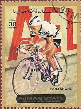 Rolf Wolfshohl